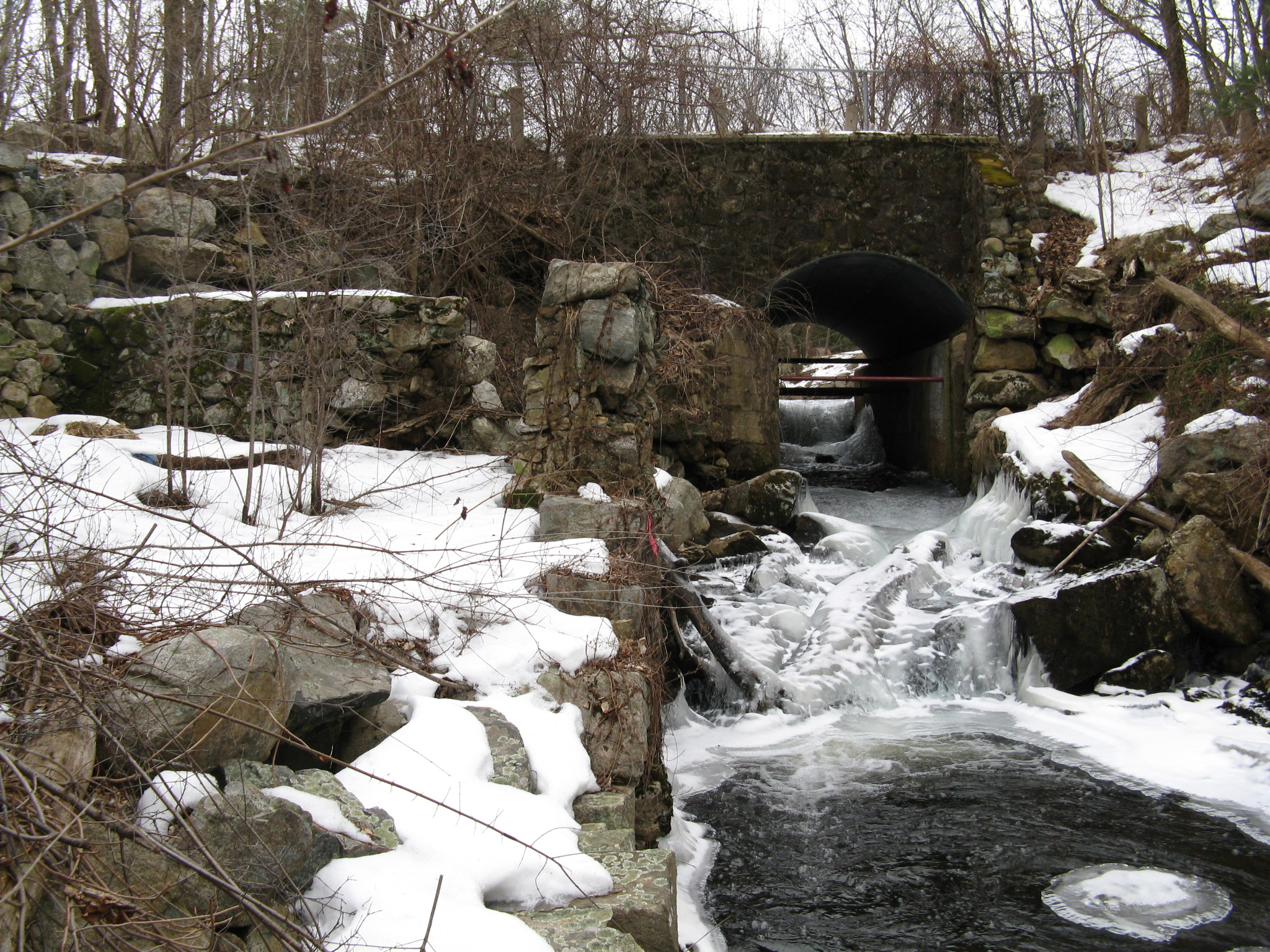 Waterfall on Vine Brook at Wilson Mill Ruins, Bedford Massachusetts